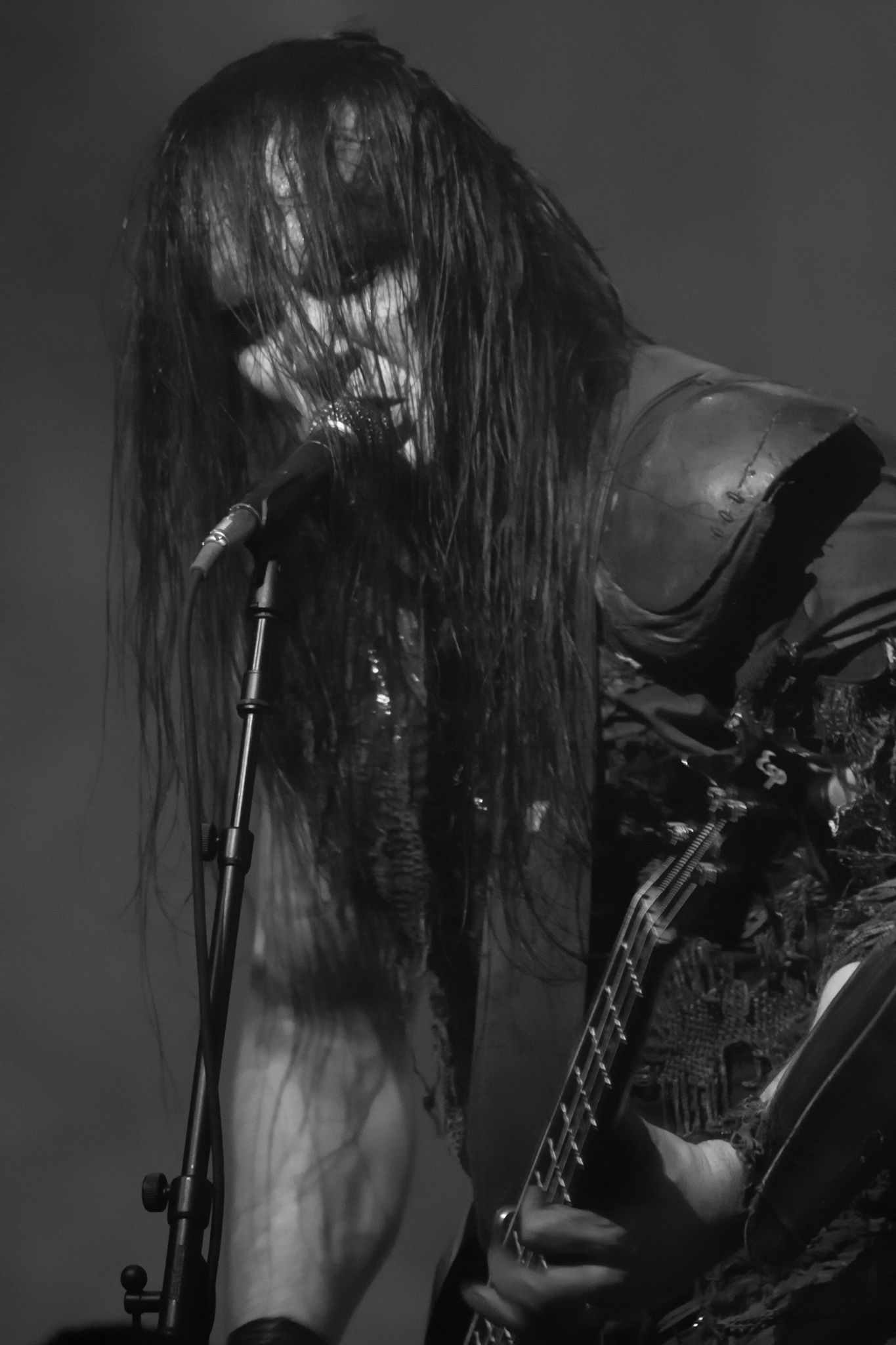 Behemoth at the "Barge to Hell" Heavy Metal Cruise